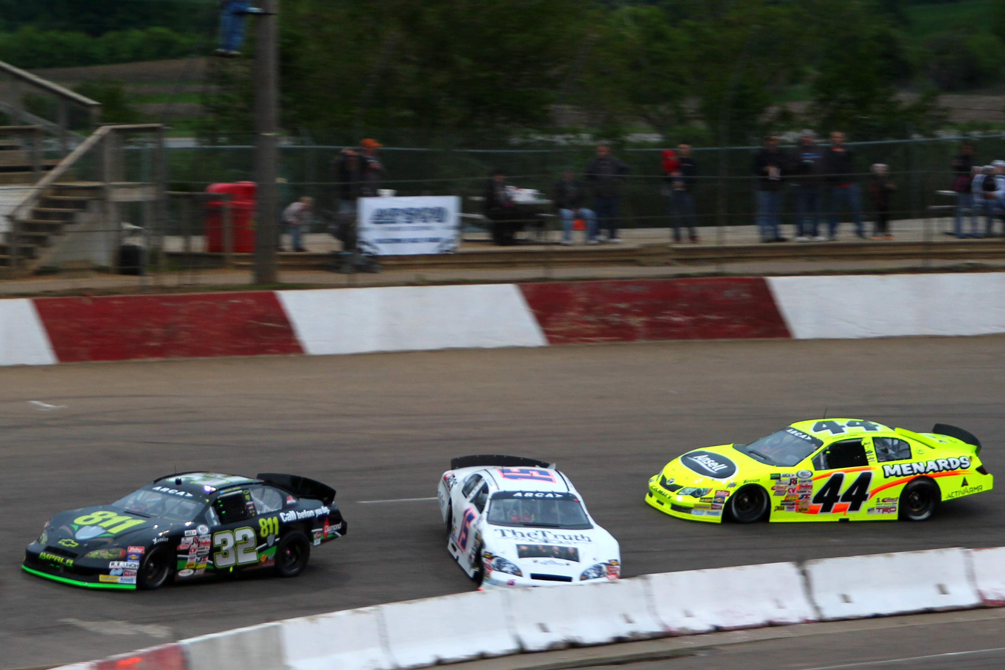 an ARCA stock car slides sideways at Elko Speedway in 2013 between #32 Mason Mignus and #44 Frank Kimmel.